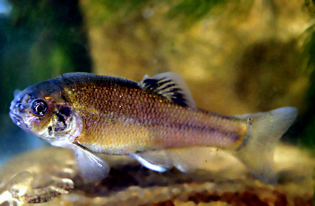 A fathead minnow (Pimephales promelas), USA